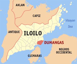 Map of Iloilo showing the location of Dumangas